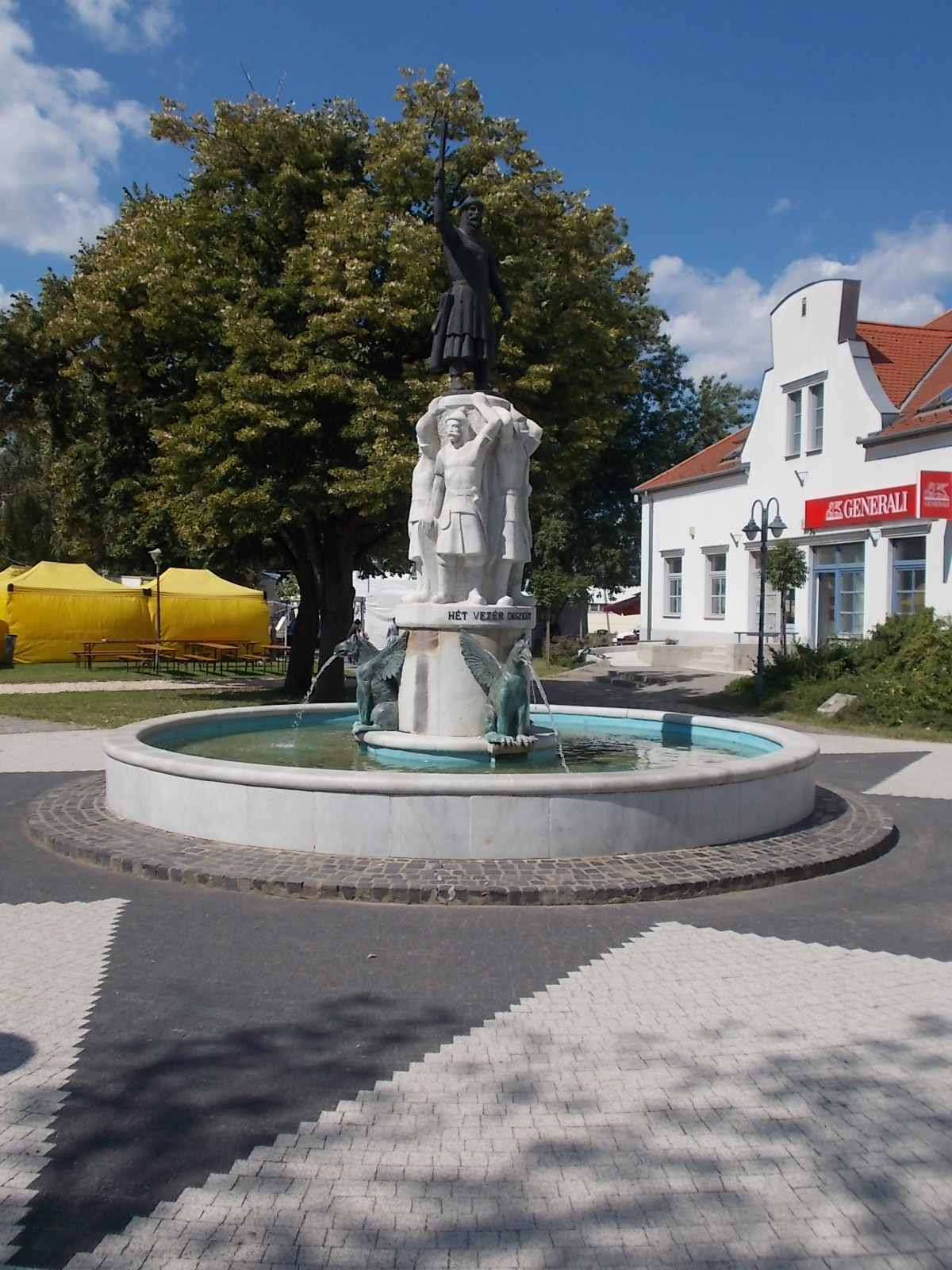 Seven chiefs well by Lajos Bíró (six marble leaders/chiefs, one hief called Ámos,-with sword in his left hand, made in Bronze,-on the top. Millennium/Millecentenary, fountain with cityscape significance, five to six meters in diameter marble pool. The four bronze animal head water spout look 'weird' they have Lion claw, beak, ears, wings and dog body.) - Kölcsey St., Mátészalka, Szabolcs-Szatmár-Bereg County, Hungary.